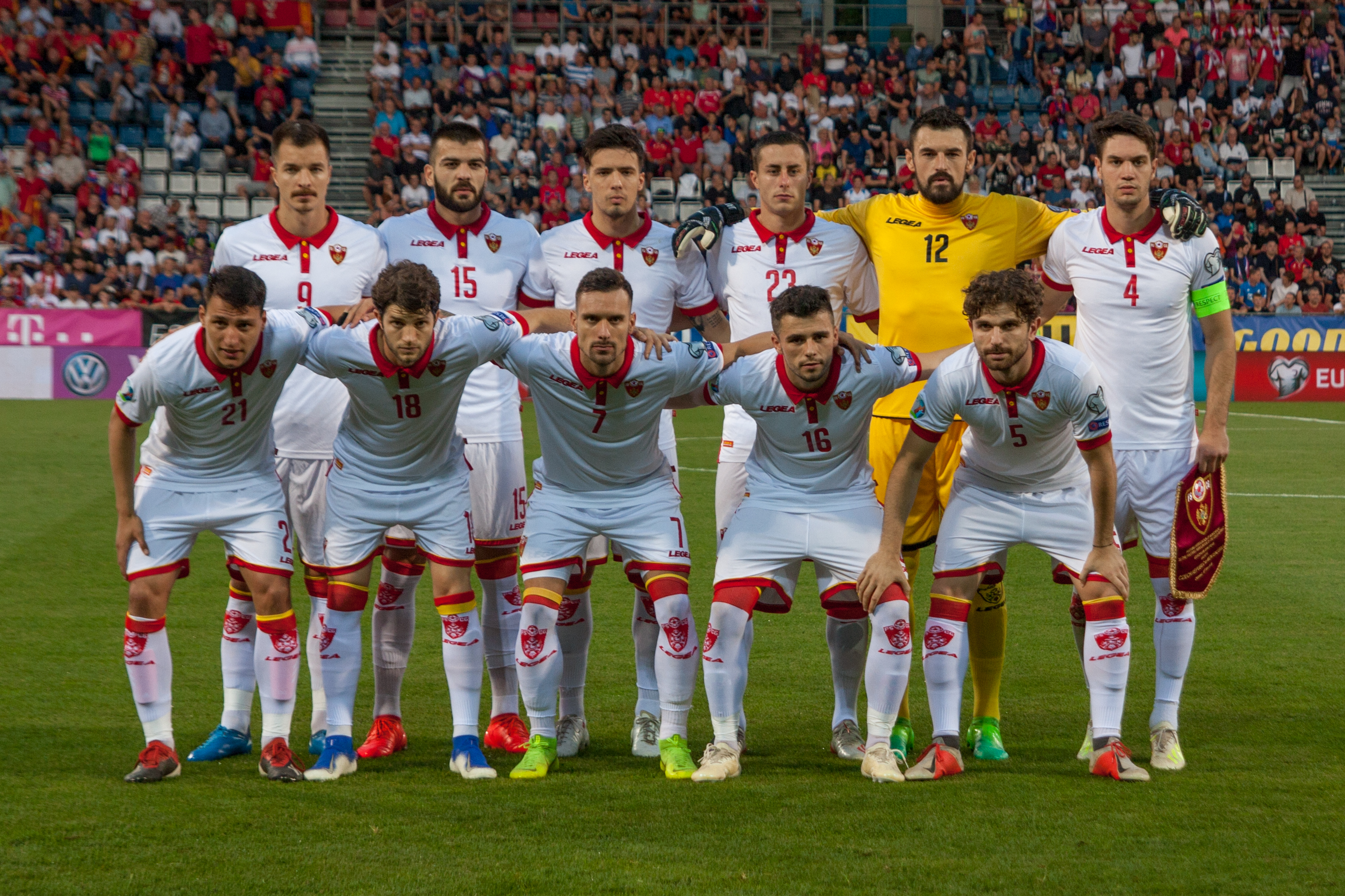 Line up of the players of Montenegro national football team at EURO 2020 Qualifying Round Czech Republic-Montenegro (10/6/2019, Ander Stadium, Olomouc) Personality rights warningAlthough this work is freely licensed or in the public domain, the person(s) shown may have rights that legally restrict certain re-uses unless those depicted consent to such uses. In these cases, a model release or other evidence of consent could protect you from infringement claims.